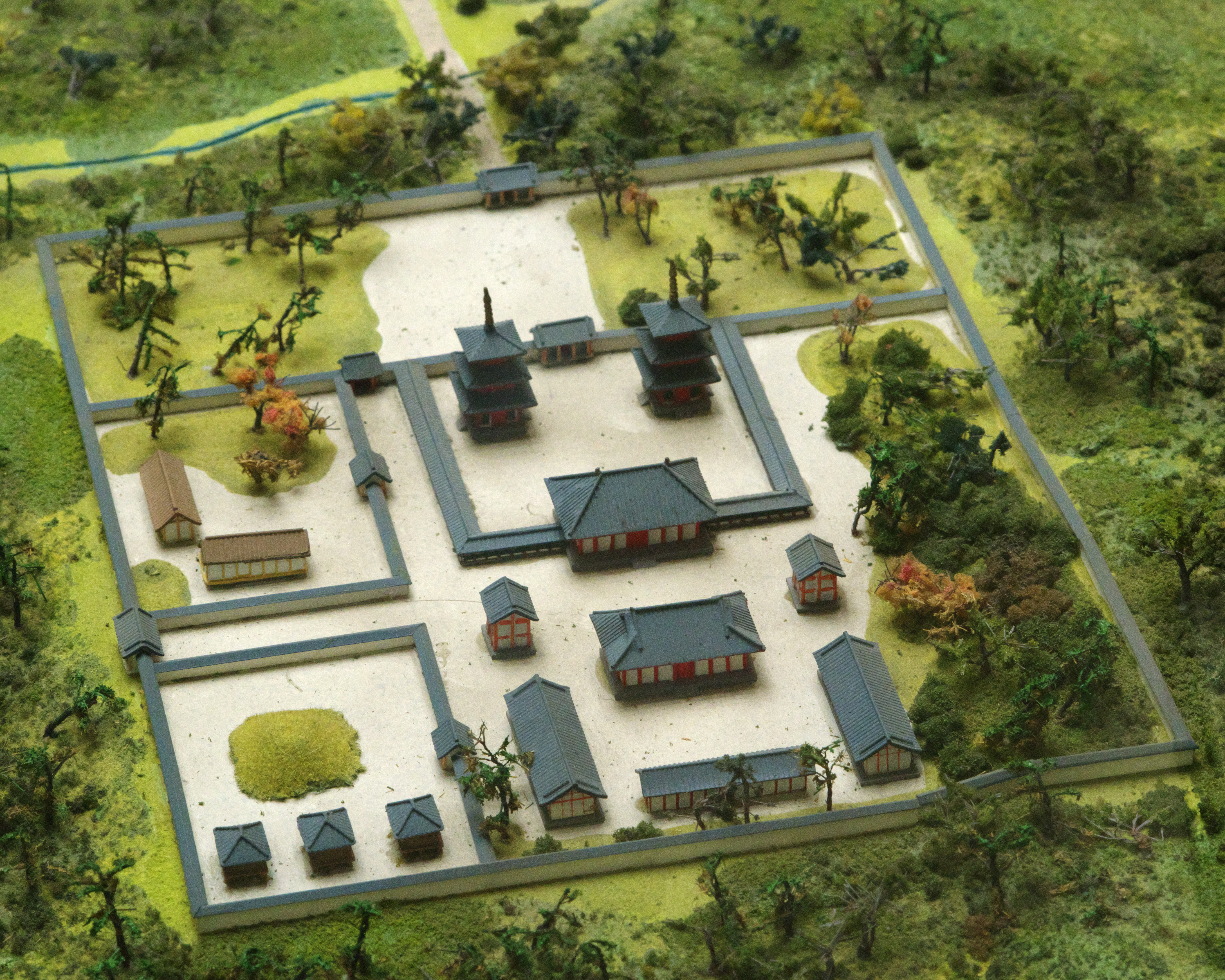 A model of Akishinodera near Heijokyo viewed from north